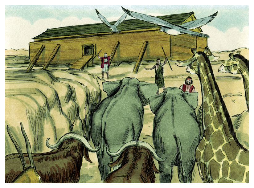 Biblical illustration of Book of Genesis Chapter 7